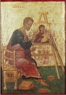 Saint-Luke-Painting-the-Blessed-Virgin